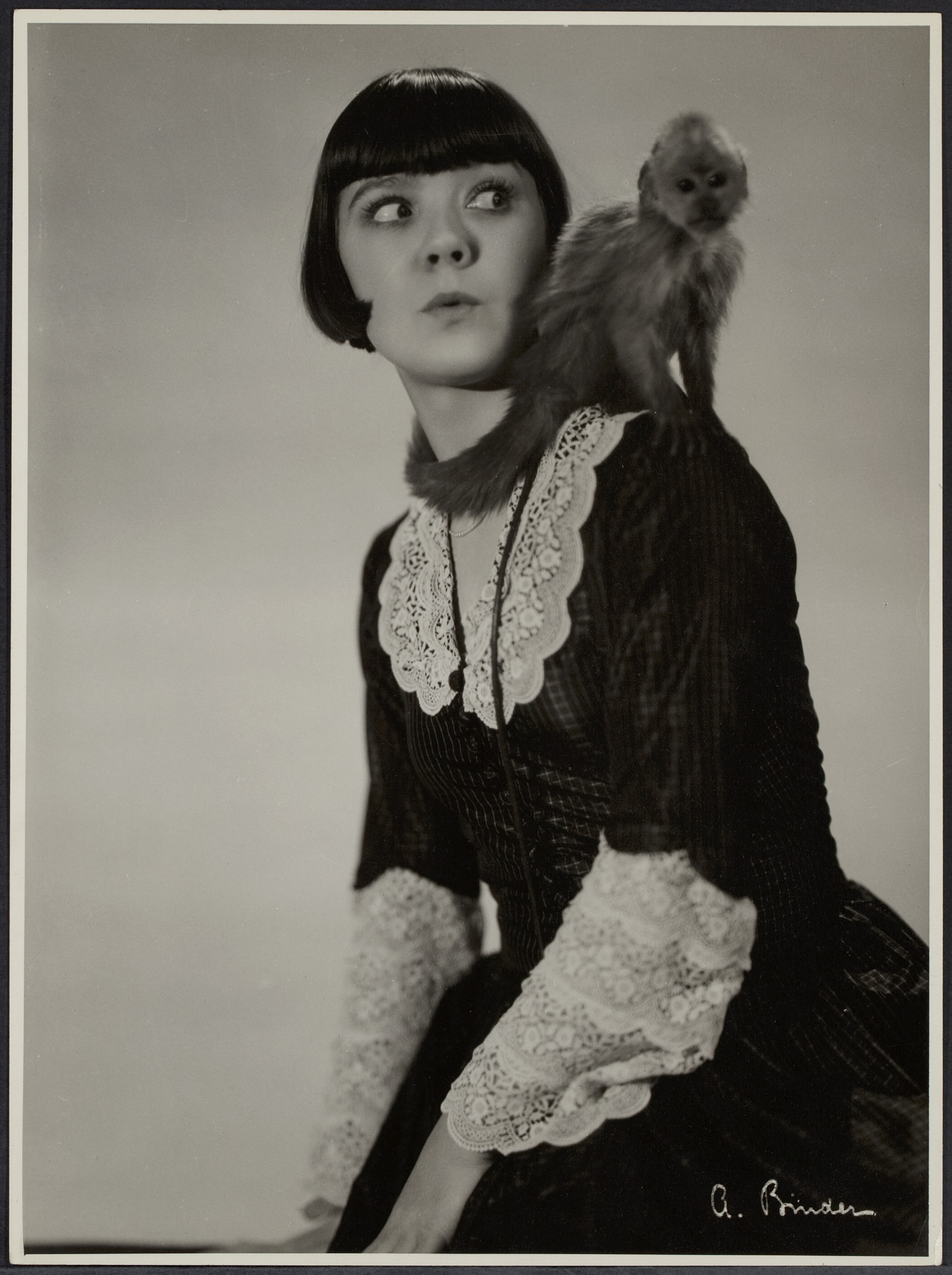 Truus van Aalten (Dutch film actress, 1910-1999) with monkey. 24 x 18 cm.